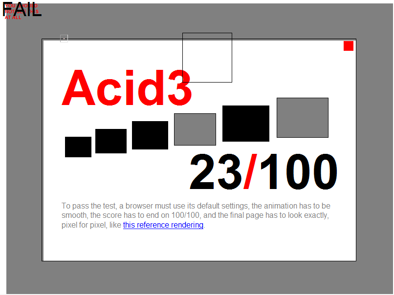 Acid3 (Wikipedia) on Windows Internet Explorer 8.0 (2009-03-19)